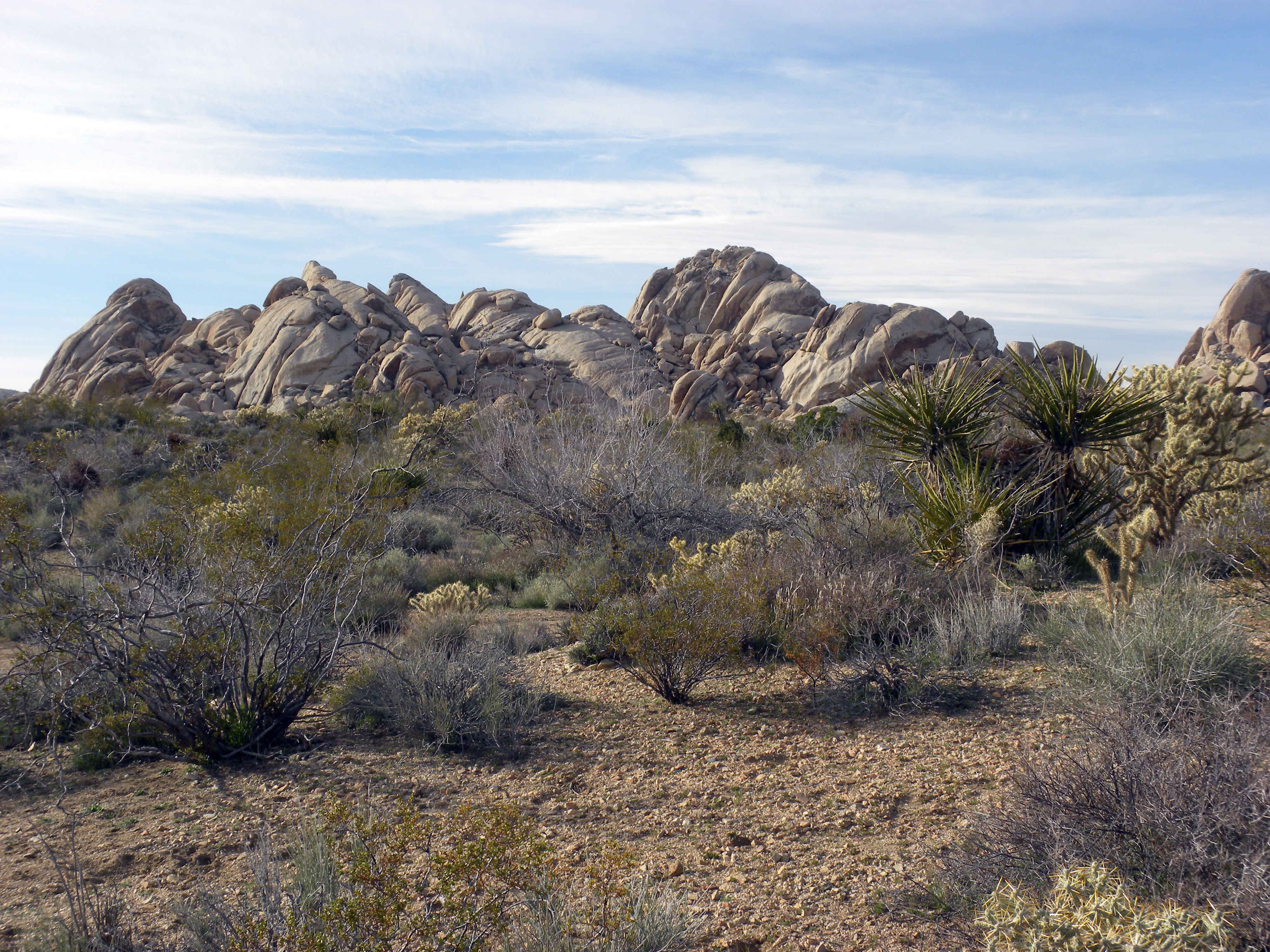 Granite Mountains, with native plant habitat, in the Mojave Desert, California.